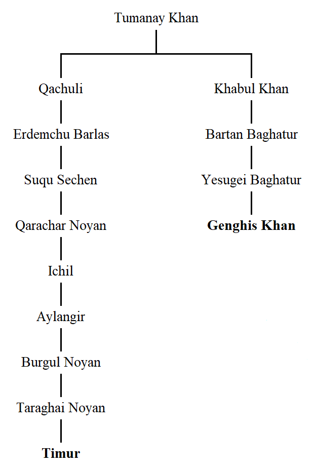 Genealogical chart showing the shared patrilineal ancestry of Timur and Genghis Khan.References: John E Woods, The Timurid Dynasty (1990), p. 9 Paul Kahn, Francis Woodman Cleaves, The Secret History of the Mongols: The Origin of Chinghis Khan (1998), p. 10